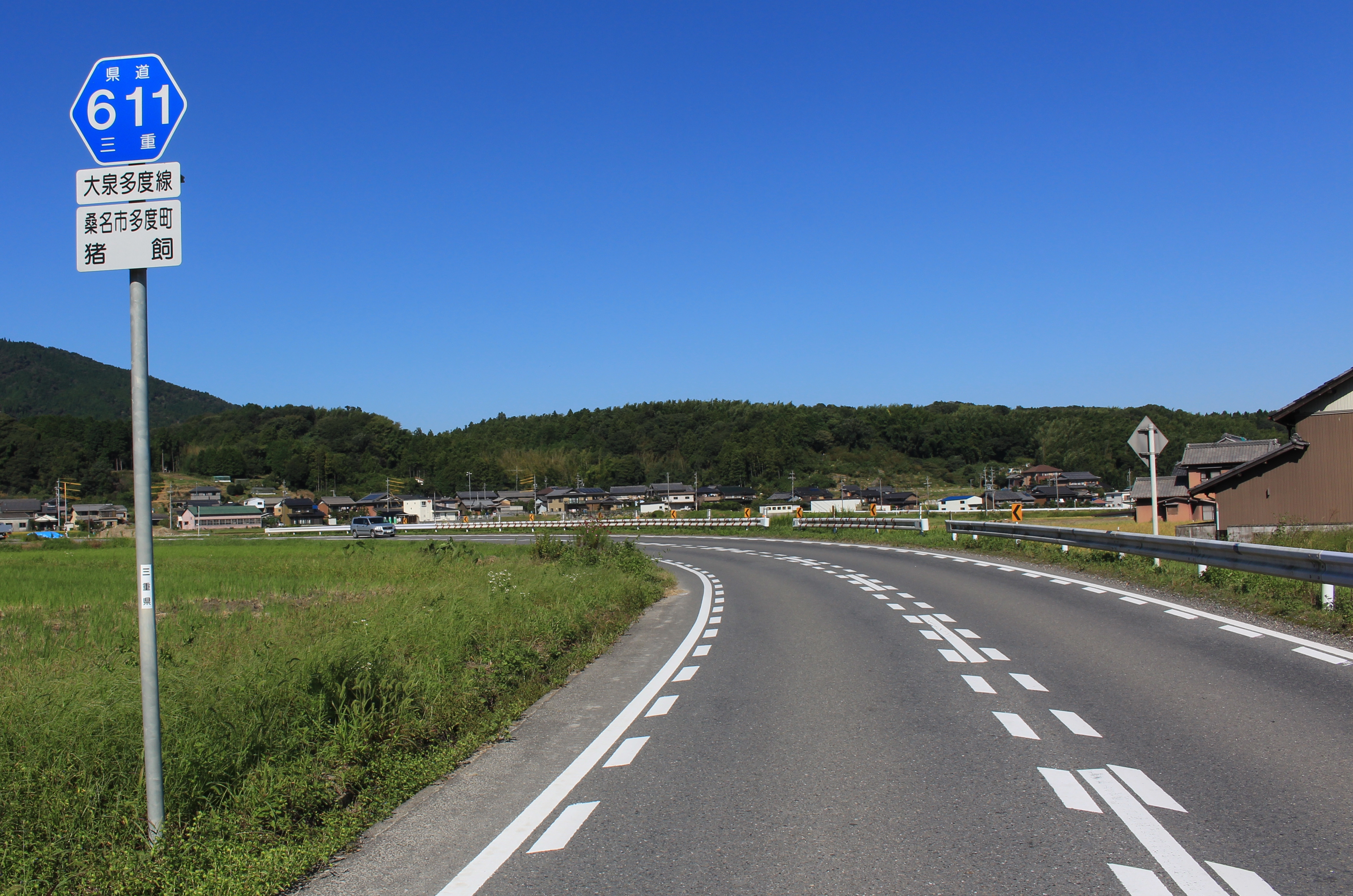 Mie Prefectural Road Route 611 in Ikai, Tado, Kuwana, Mie prefecture, Japan.